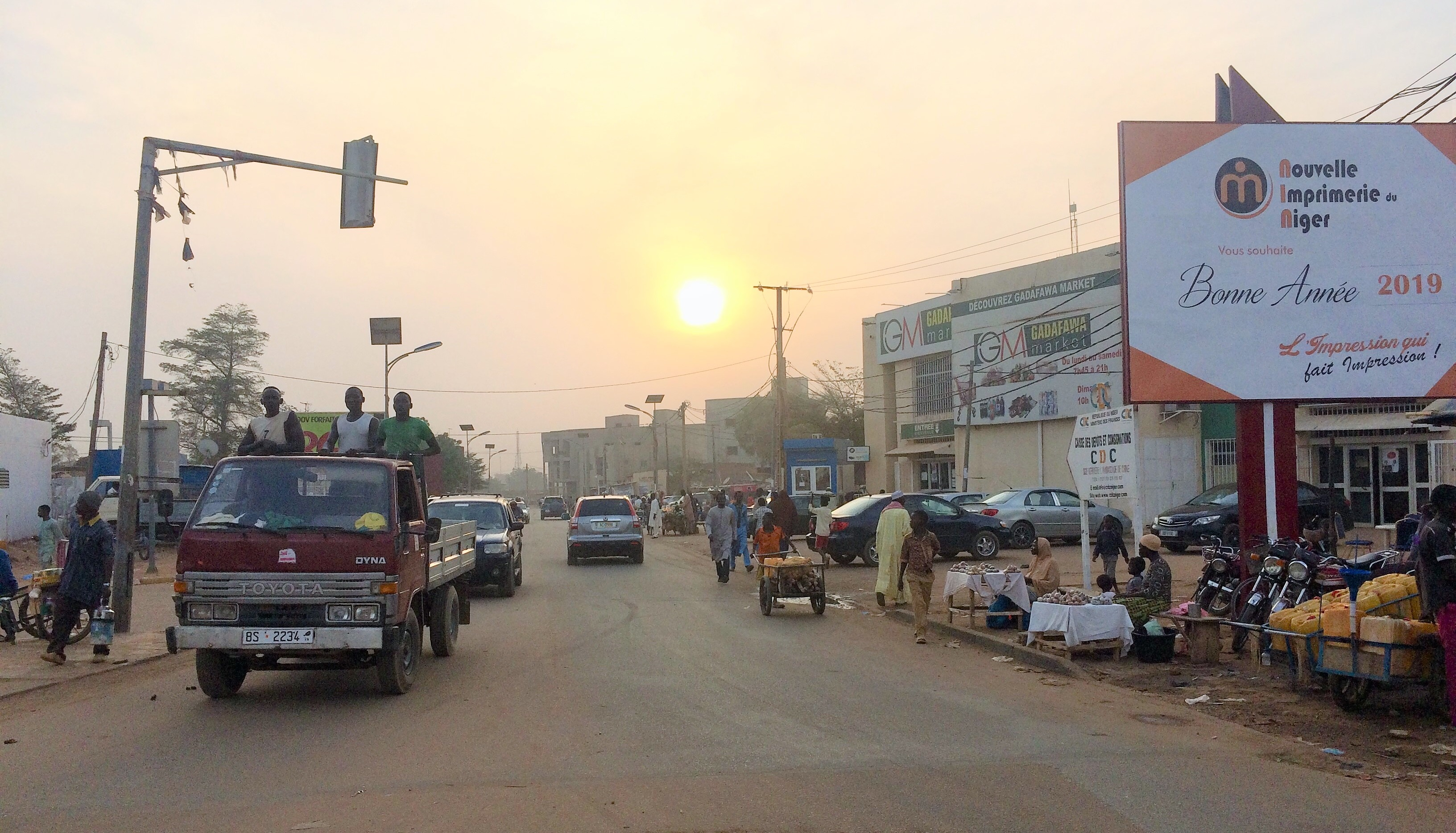 Sunset on the Boulevard de la Jeunesse (Boulevard of the Youth), Yantala Ancien neighborhood, Niamey, Niger.